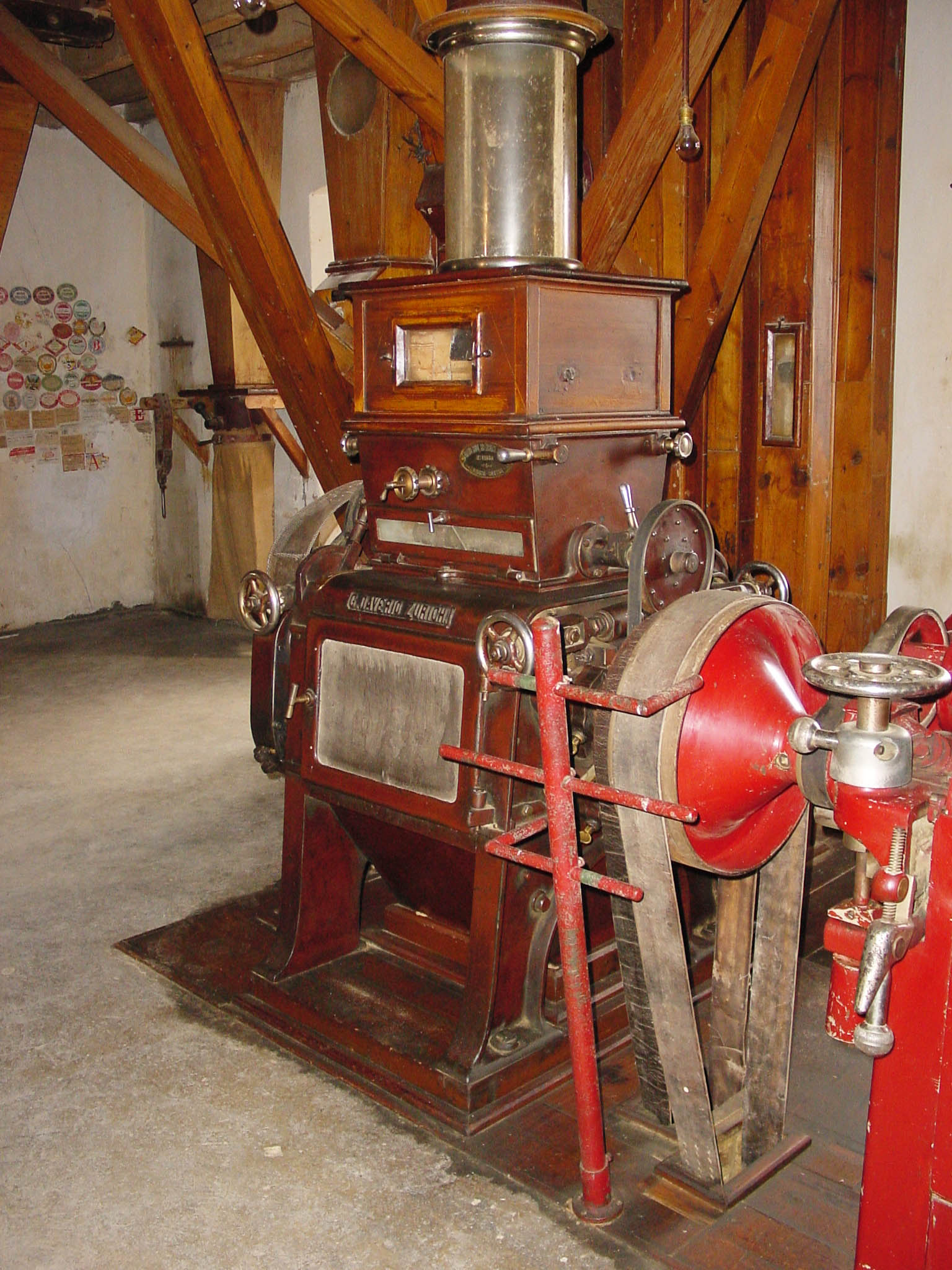 Factory of flour San Antonio, at the dock of the Channel of Castile in Medina de Rioseco, Valladolid Spain. Gristmill.